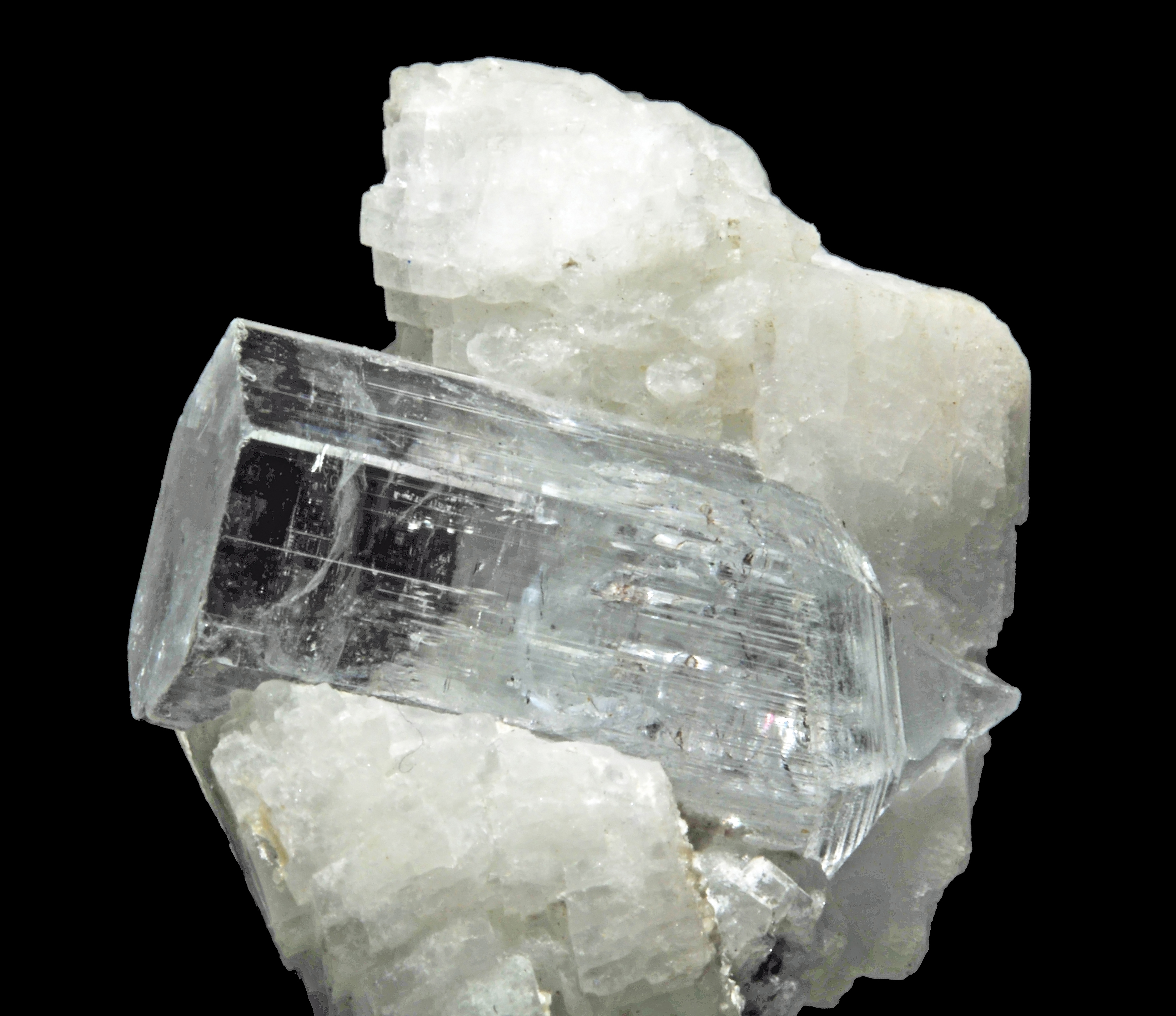 crystal of beryl var. goshenite, crystals of albite var. cleavelandite, crystals of quartz : Chamachhu Pegmatites, Chamachhu, Haramosh Mts, Skardu District, Baltistan, Gilgit-Baltistan (Northern Areas), Pakistan